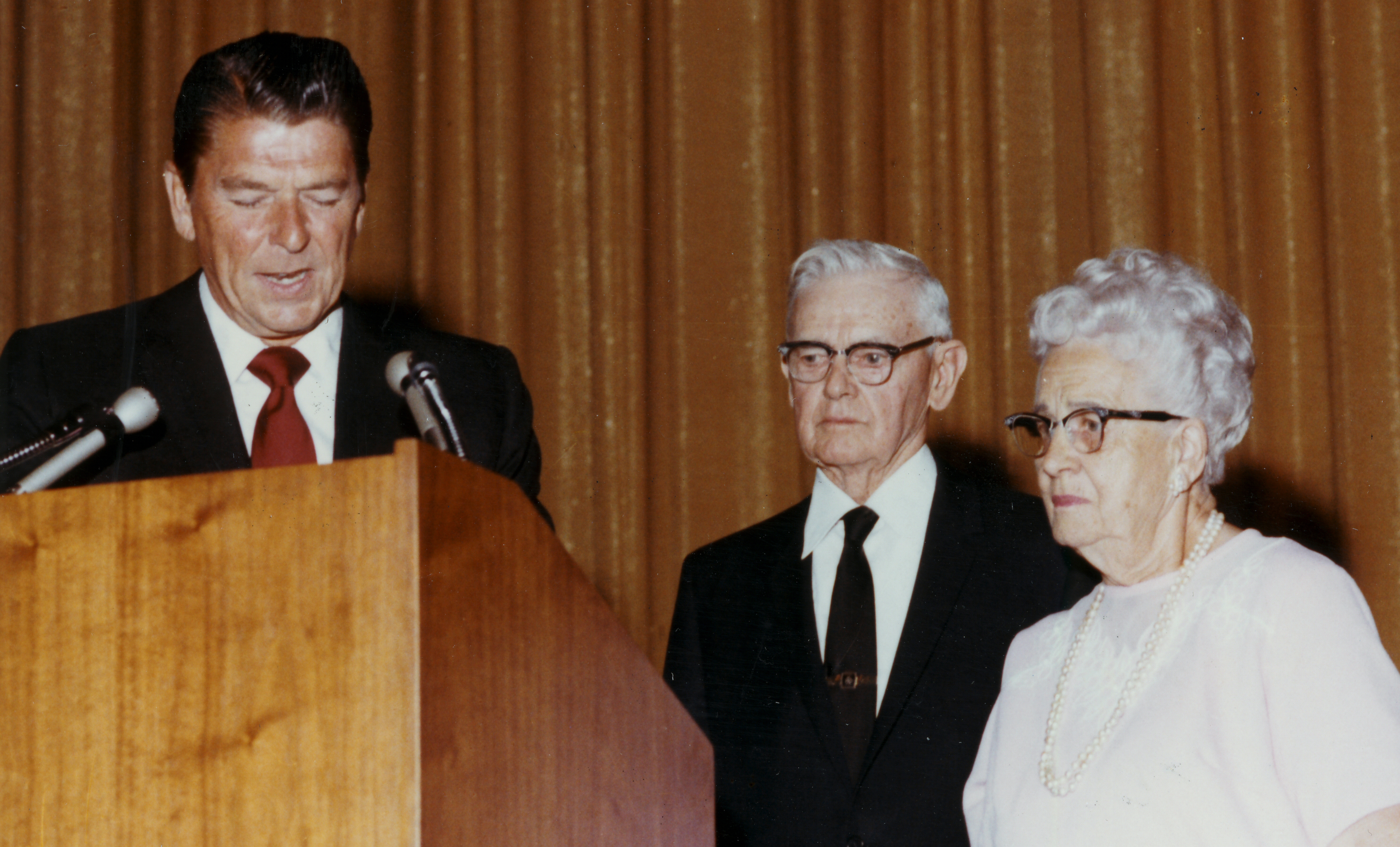 Ronald Reagan with Walter and Cordelia Knott at the celebration of Knotts' 60th Anniversary in 1971.